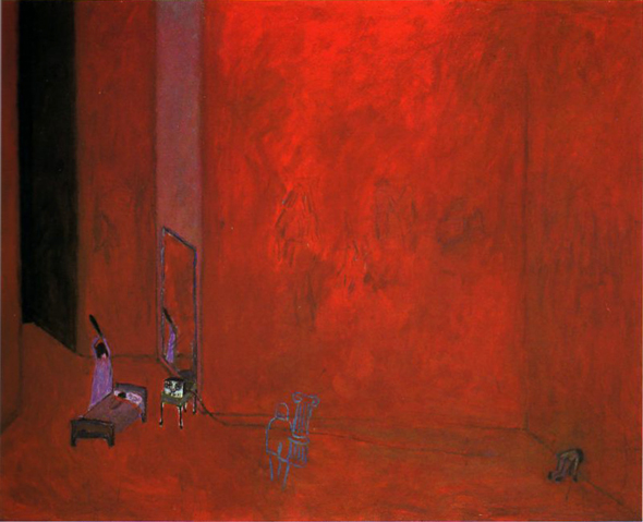 Nadie olvida nada, 1982. Acrylic on wood, 46 3/4 x 56 1/2 inches.